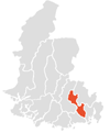 Location map for Songdalen in Vest-Agder, Norway